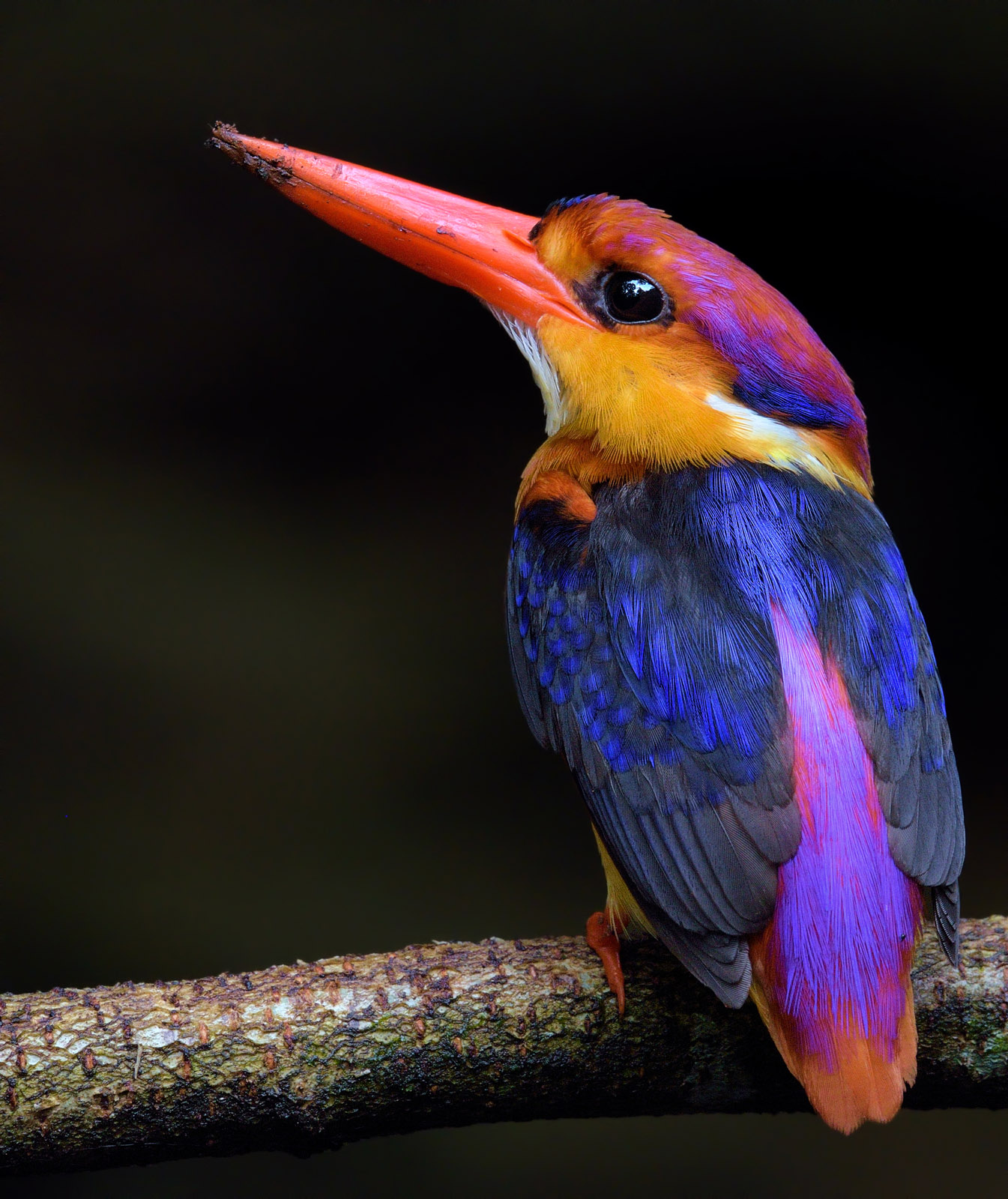 Oriental Dwarf Kingfisher, popularly known as ODKF, is the jewel of Western Ghats in Maharashtra.